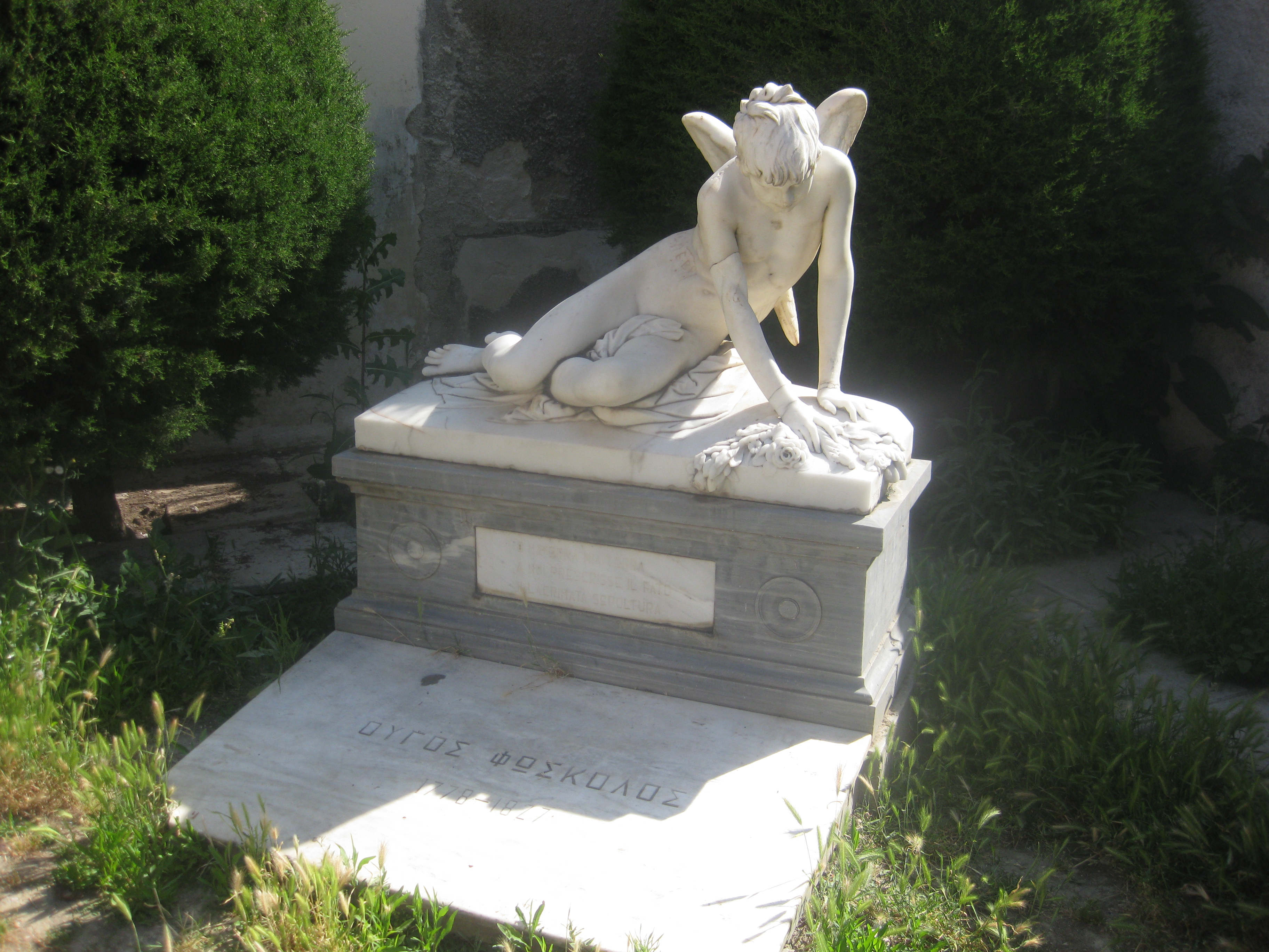 Monument for Ugo Foscolo in Zakynthos